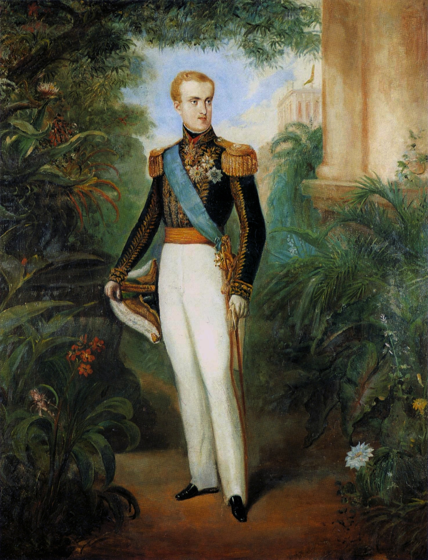 Emperor Pedro II of Brazil, 1846.